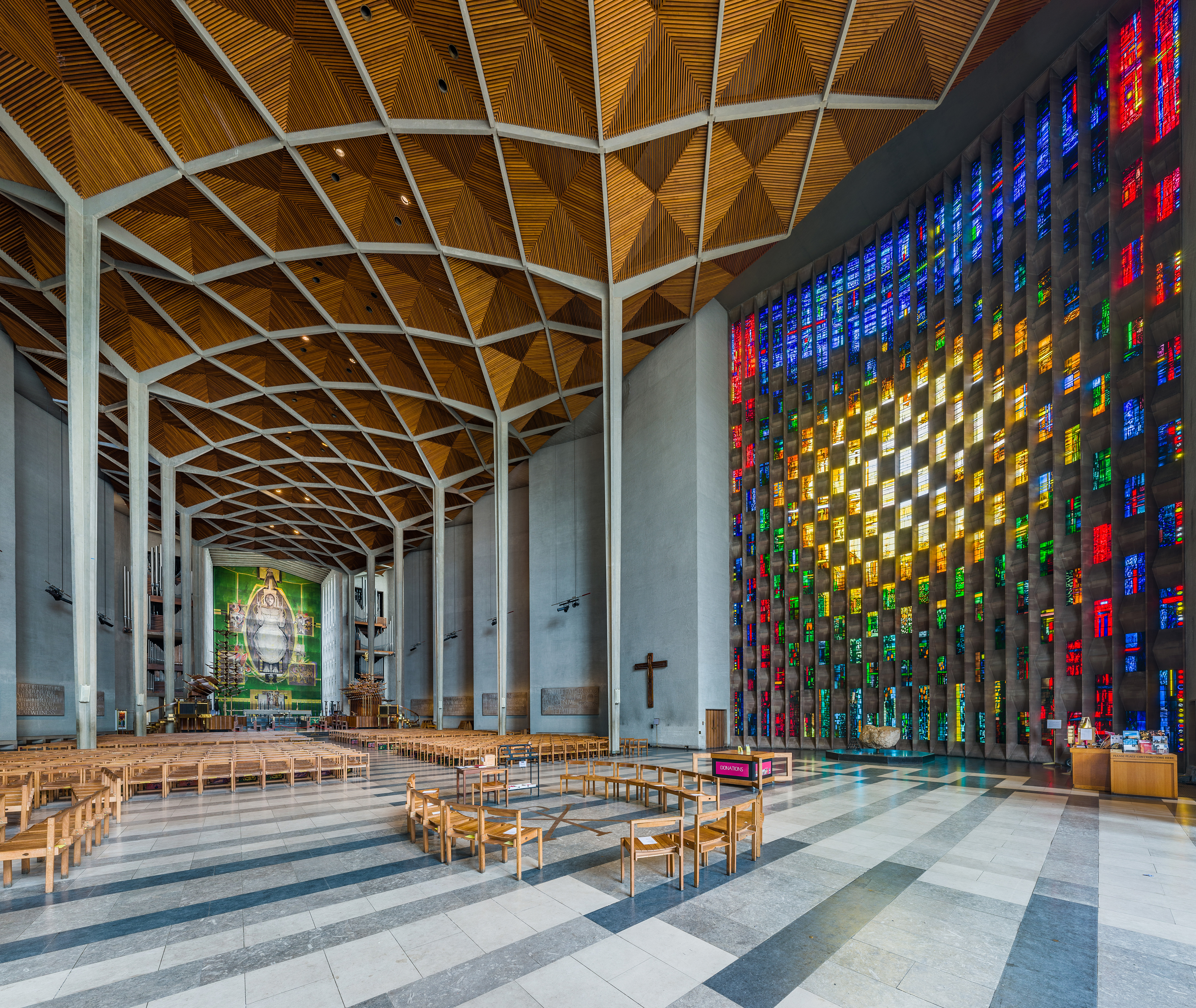 The interior of the modern Coventry Cathedral in the West Midlands, England.